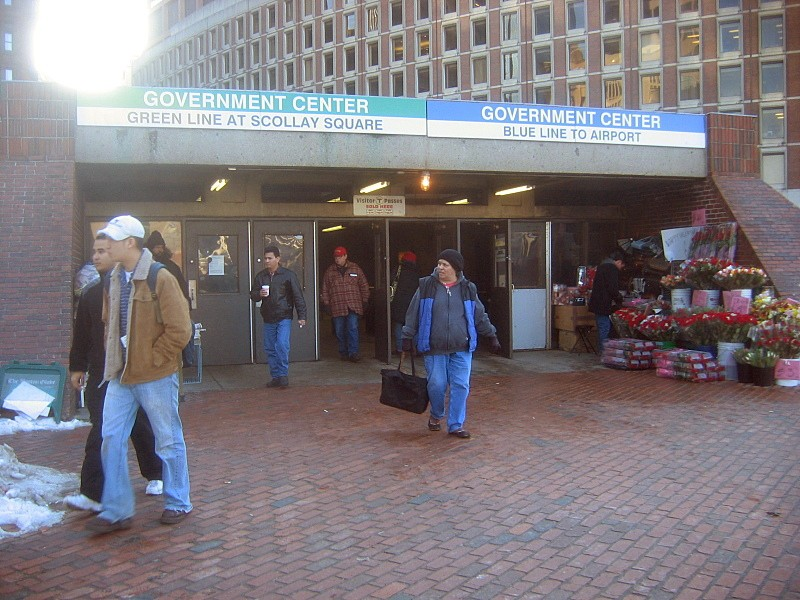 Government Center station headhouse, City Hall Plaza, Boston